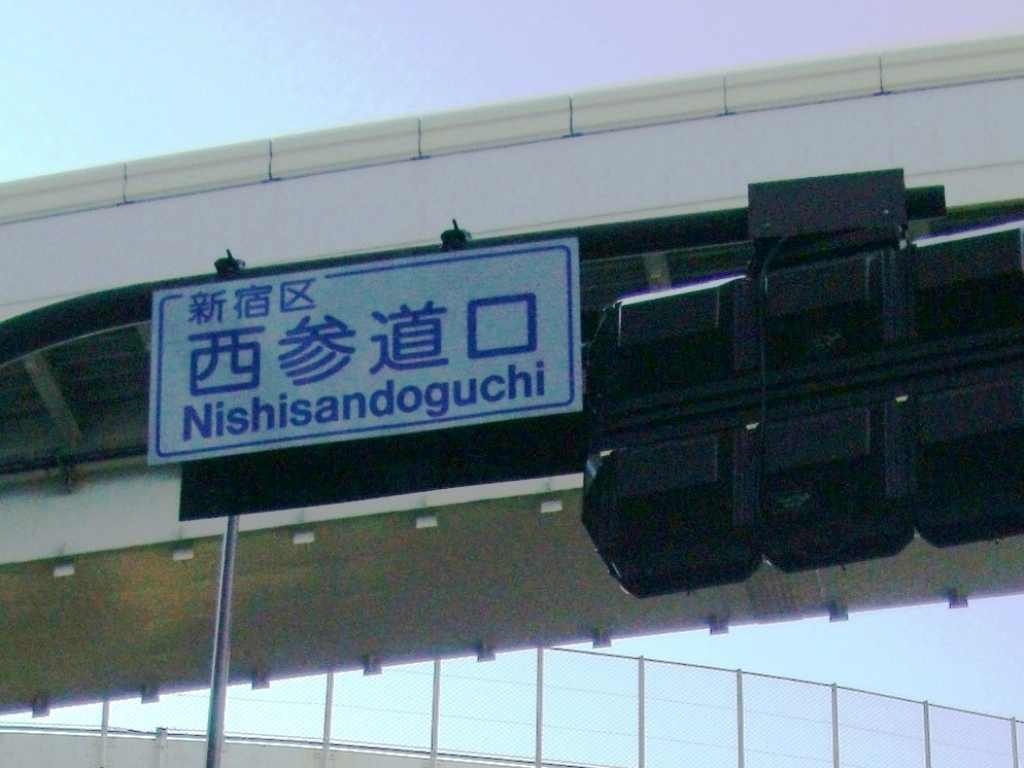 Street sign showing Nishisando-guchi crossing. Kosyu-kaido street, or Route 20, in Shinjuku, Tokyo